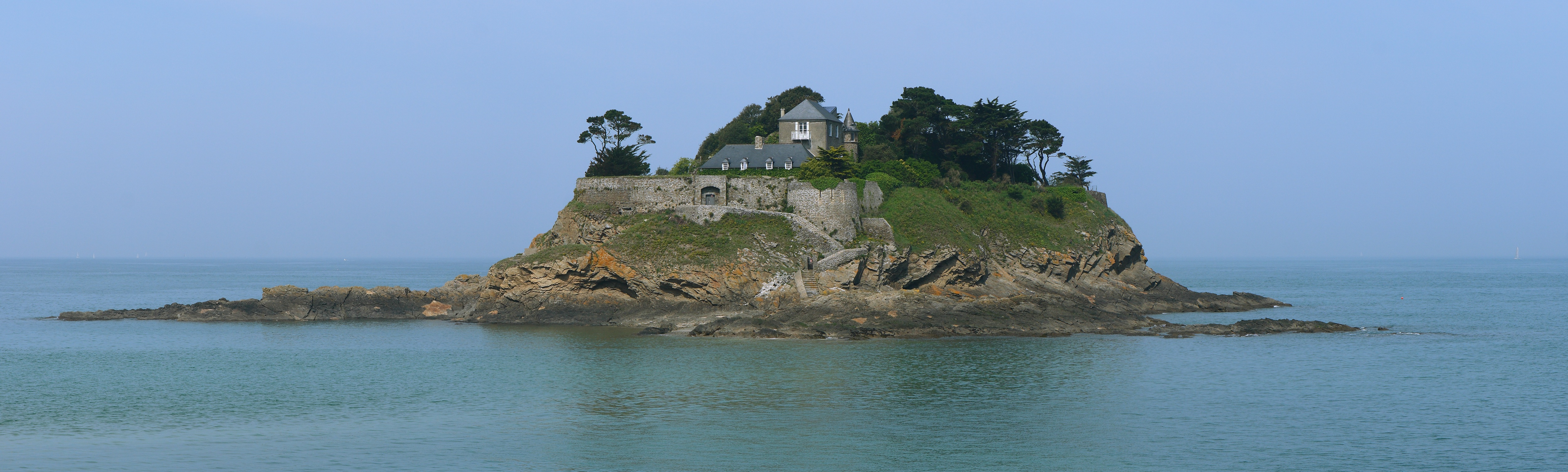 Fort du Guesclin in Brittany (France).